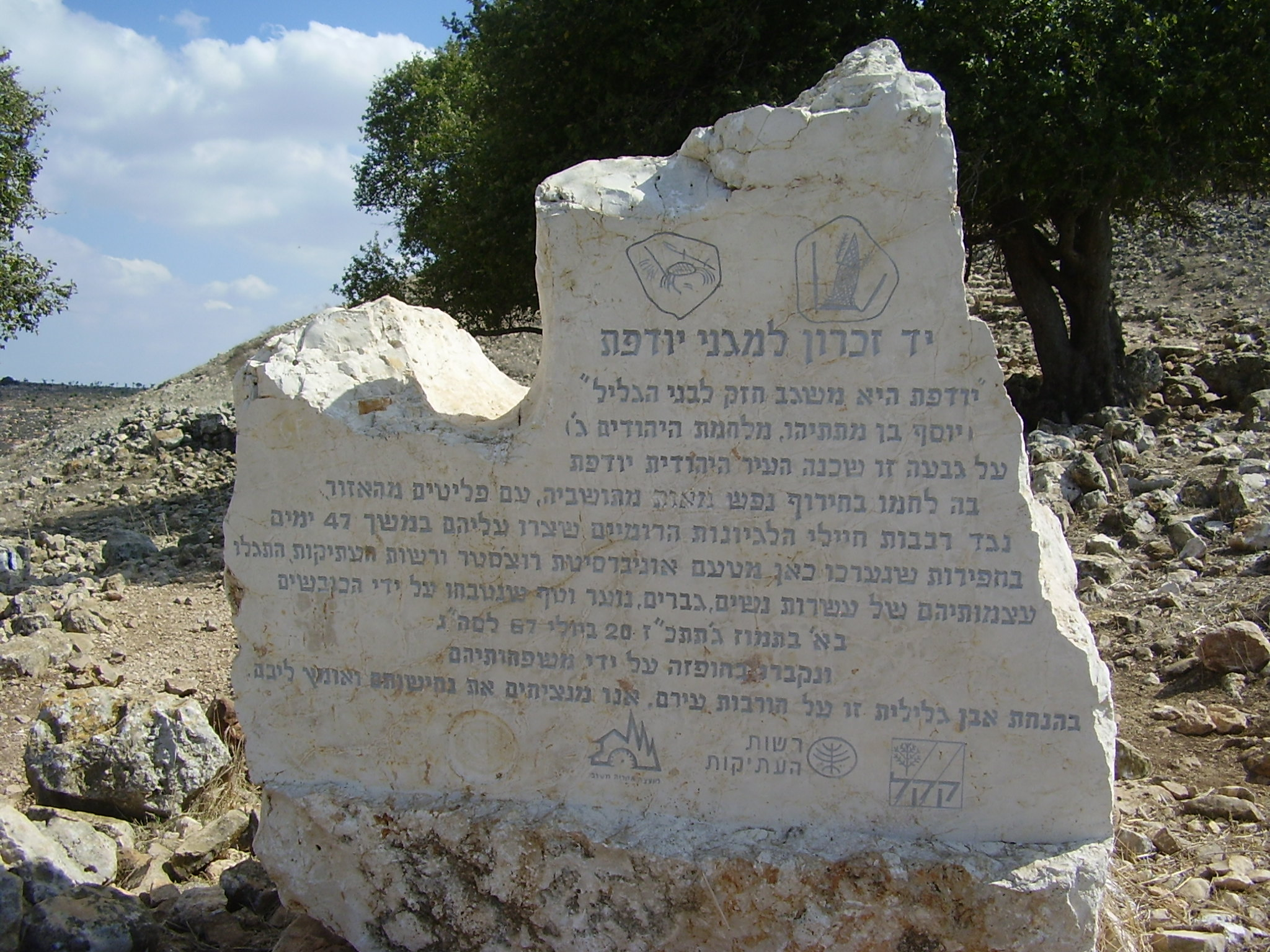 Ancient Yodfat